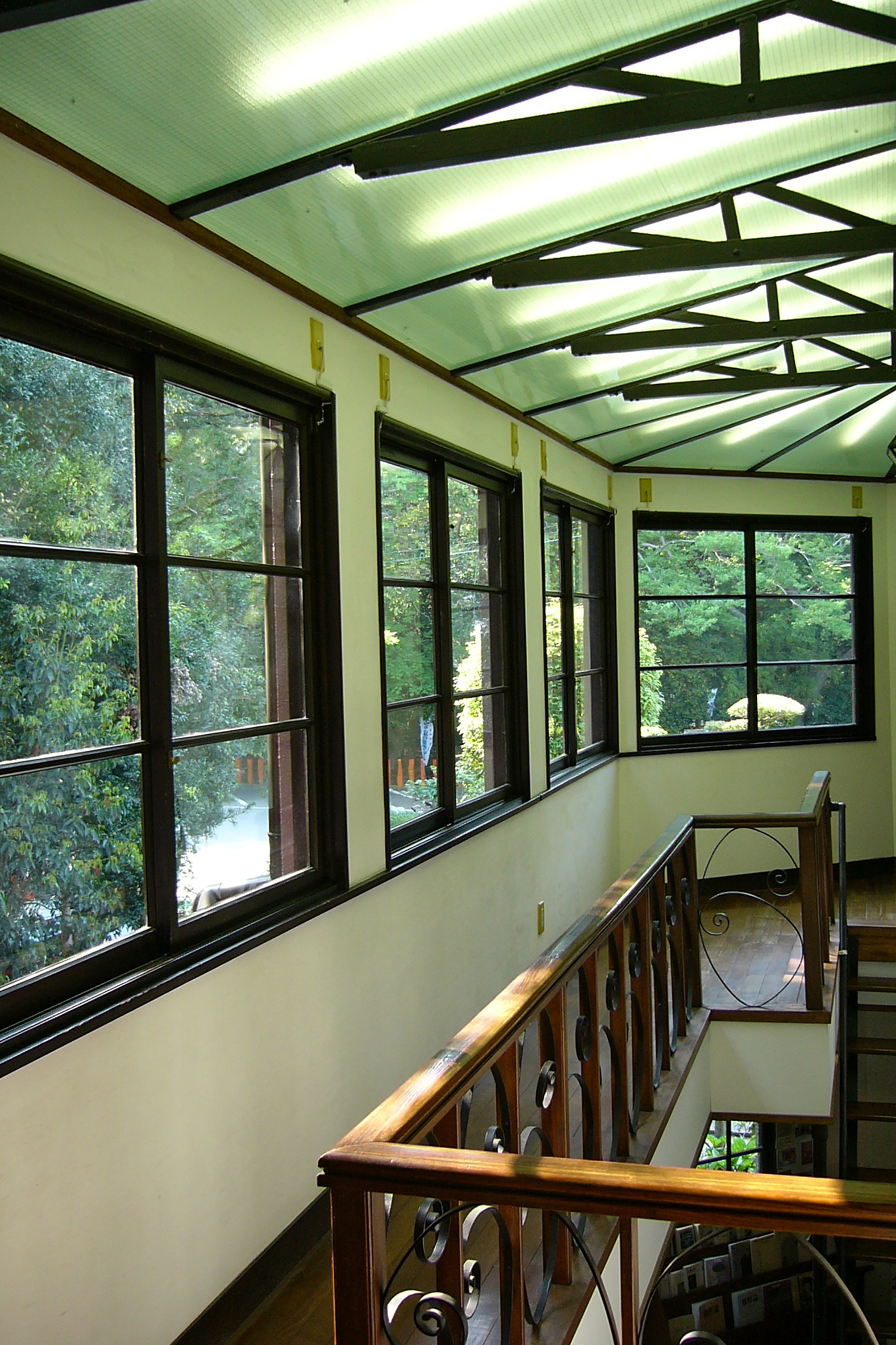 Sato Haruo Memorial Museum, Shingu, Wakayama prefecture, Japan